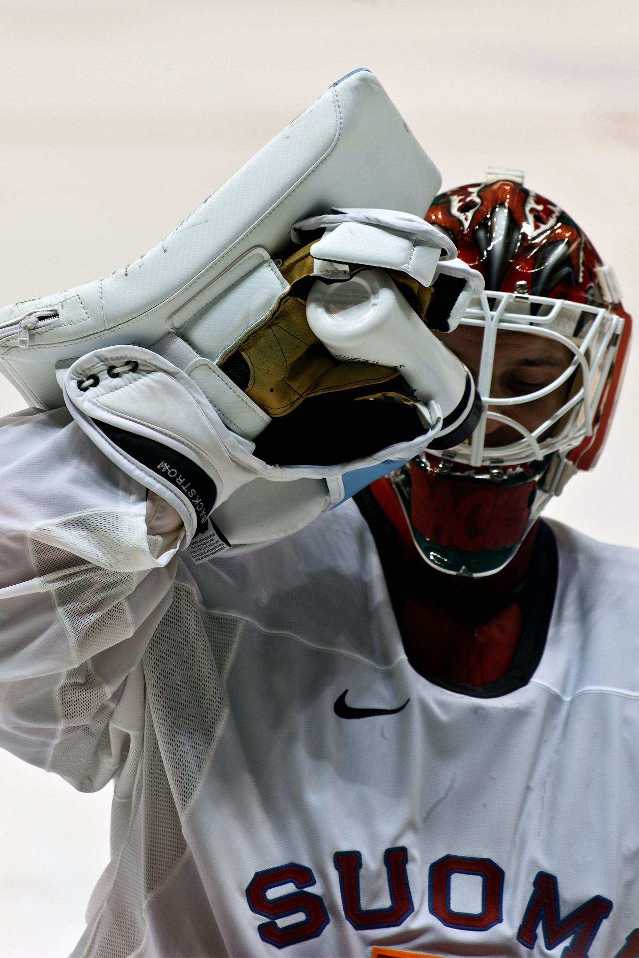 Finland goaltender Niklas Bäckström drinks water during a stoppage against Germany during the 2010 Winter Olympics